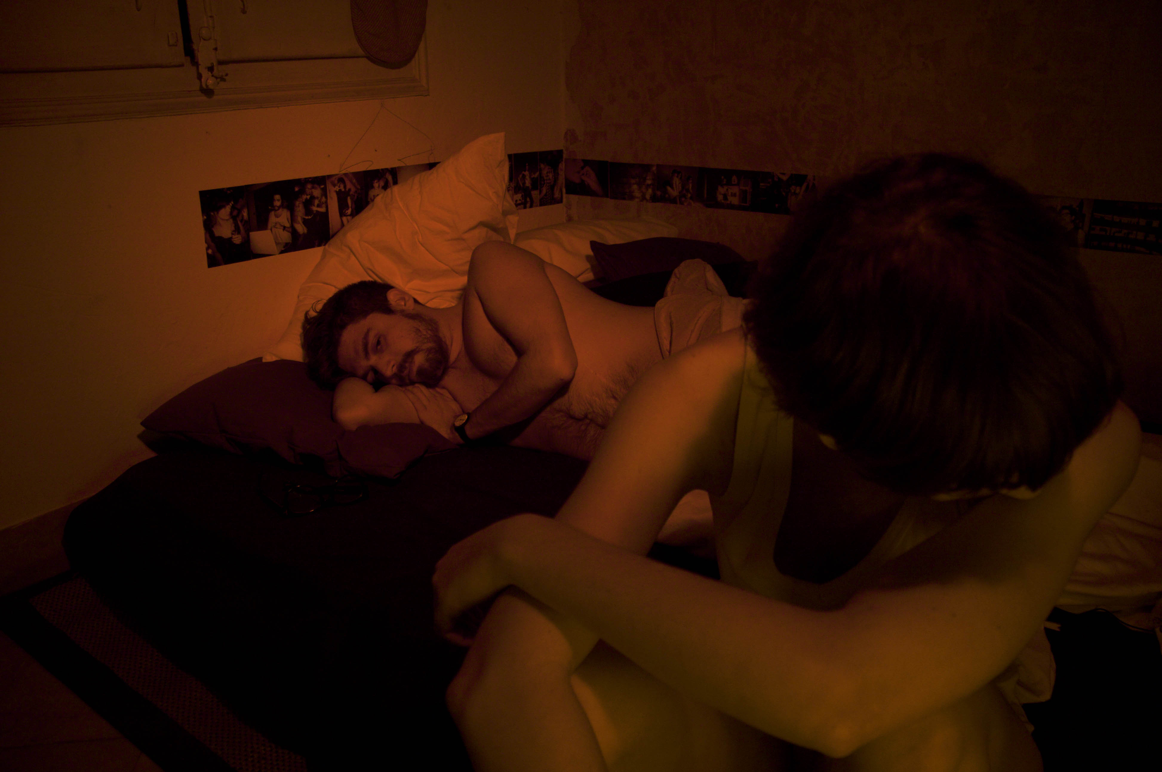 Self Portraits project for Art Direction program in Barcelona. Art Direction and Styling. Dita, Nan, Maura and You shot by Jordi Marin and Estel Román. Annie shot by Pau Morgan